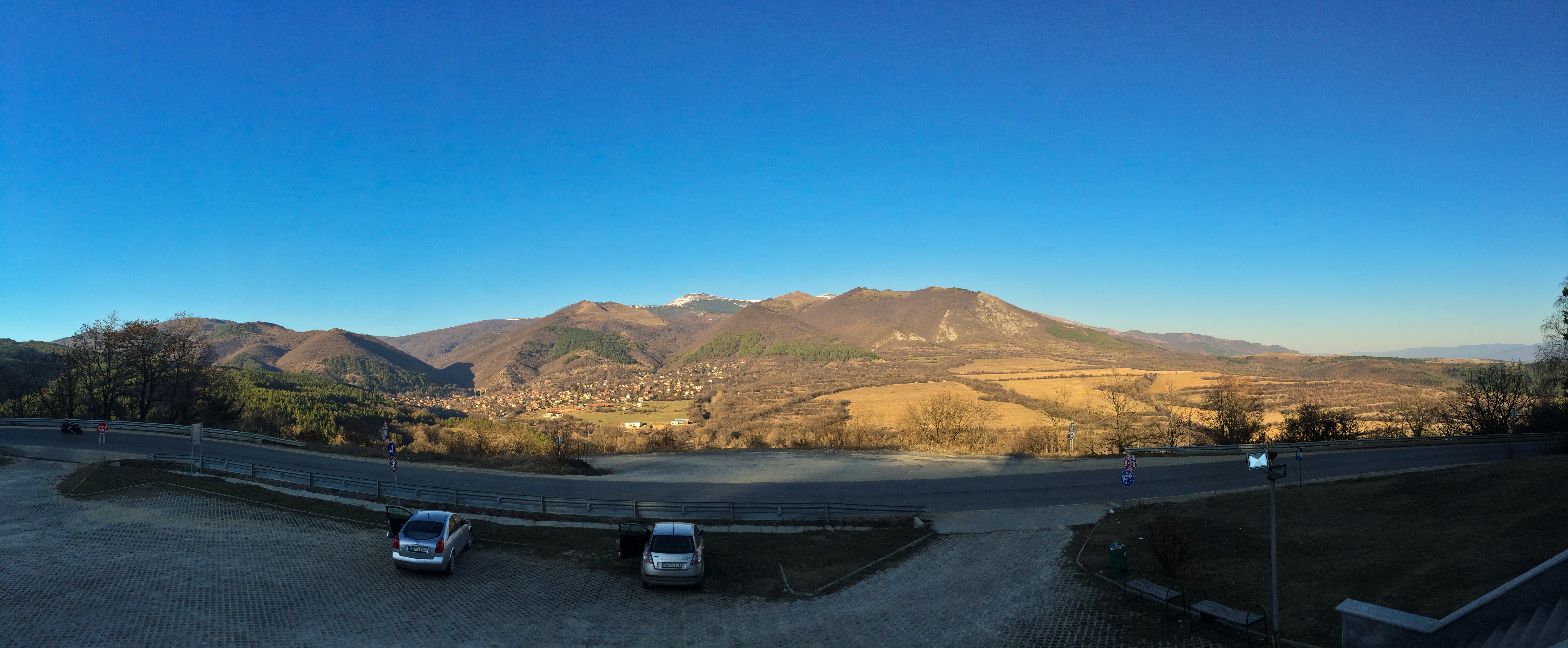 Изглед към Буново